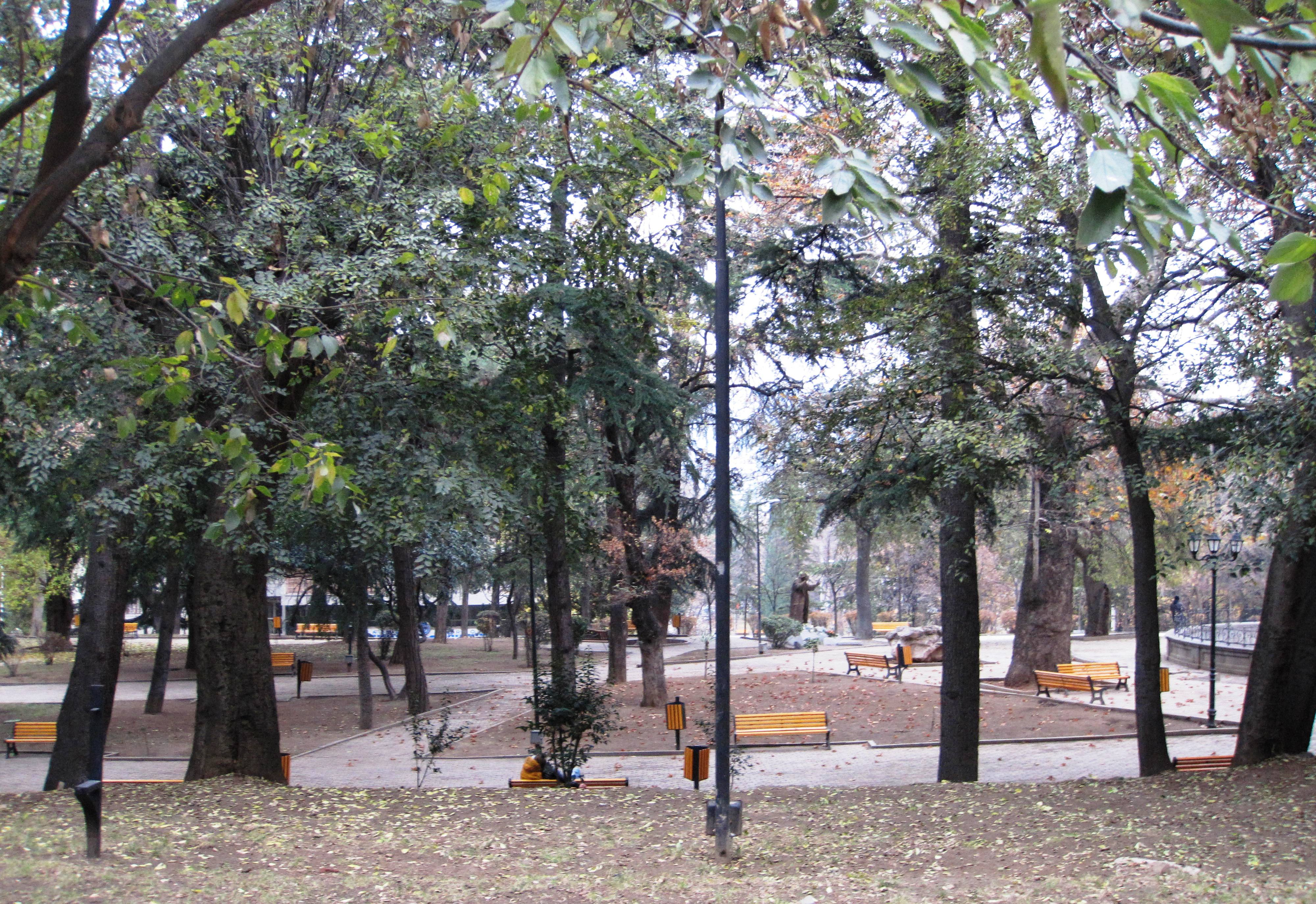 The April 9 Park in downtown Tbilisi in the fall of 2013.